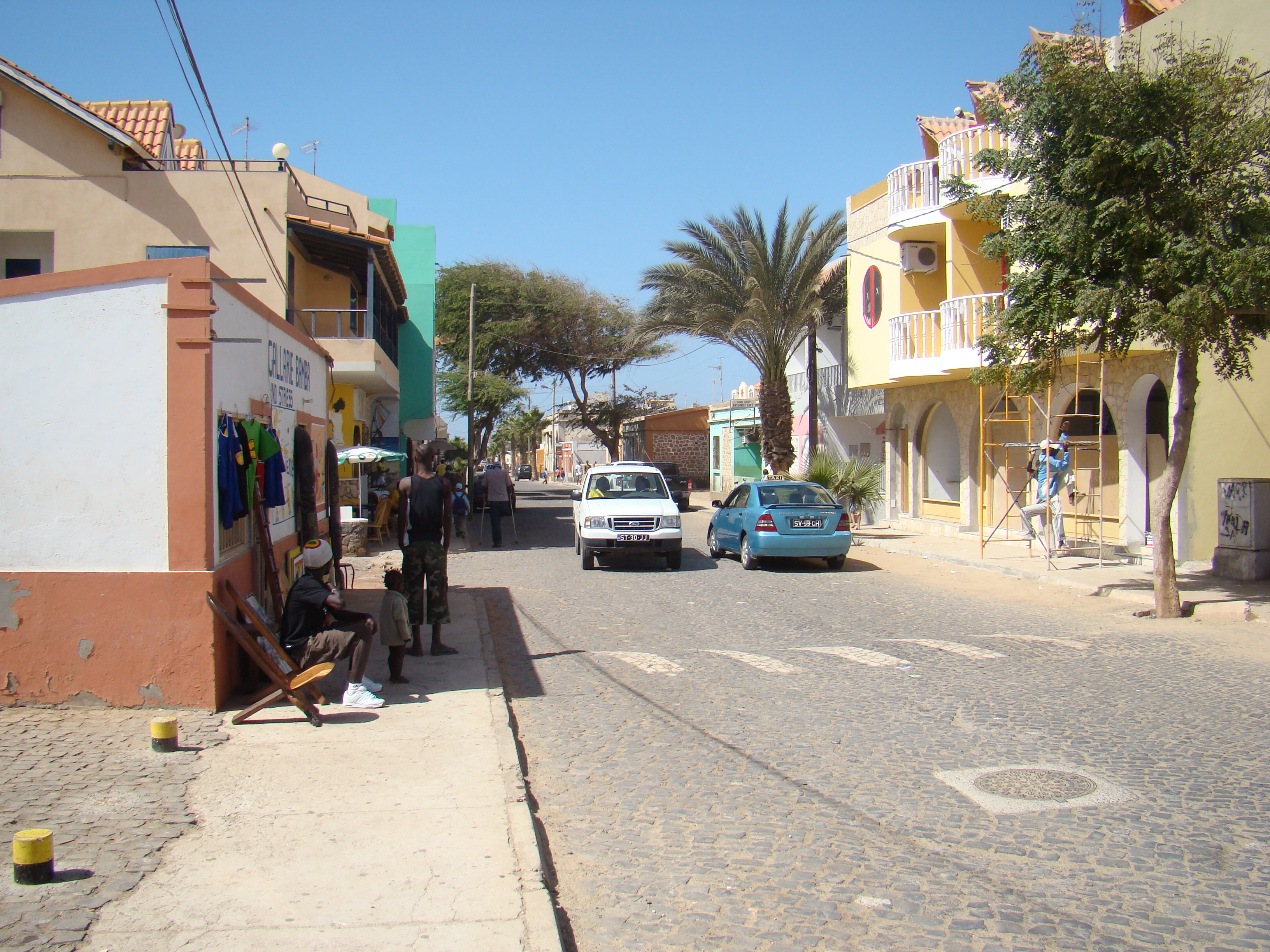 Santa Maria Town. Sal Island. Cabo Verde (Cape Verde)